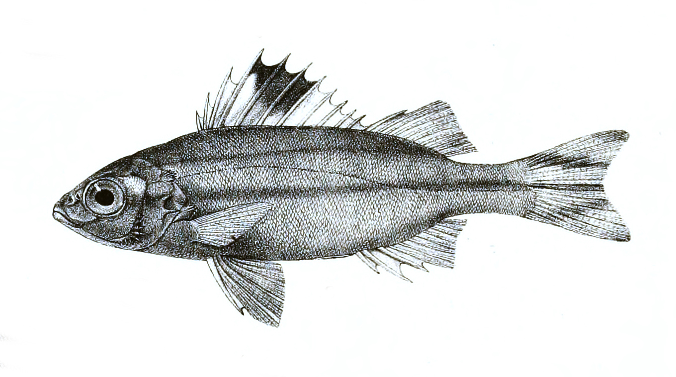 The species names / identity need verification. The original plates showed the fishes facing right and have have been flipped here. Therapon puta